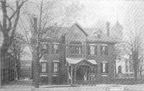 (left to right) Nathanial and Armenia White residence, Capitol Street, Concord, New Hampshire. White Memorial Church.